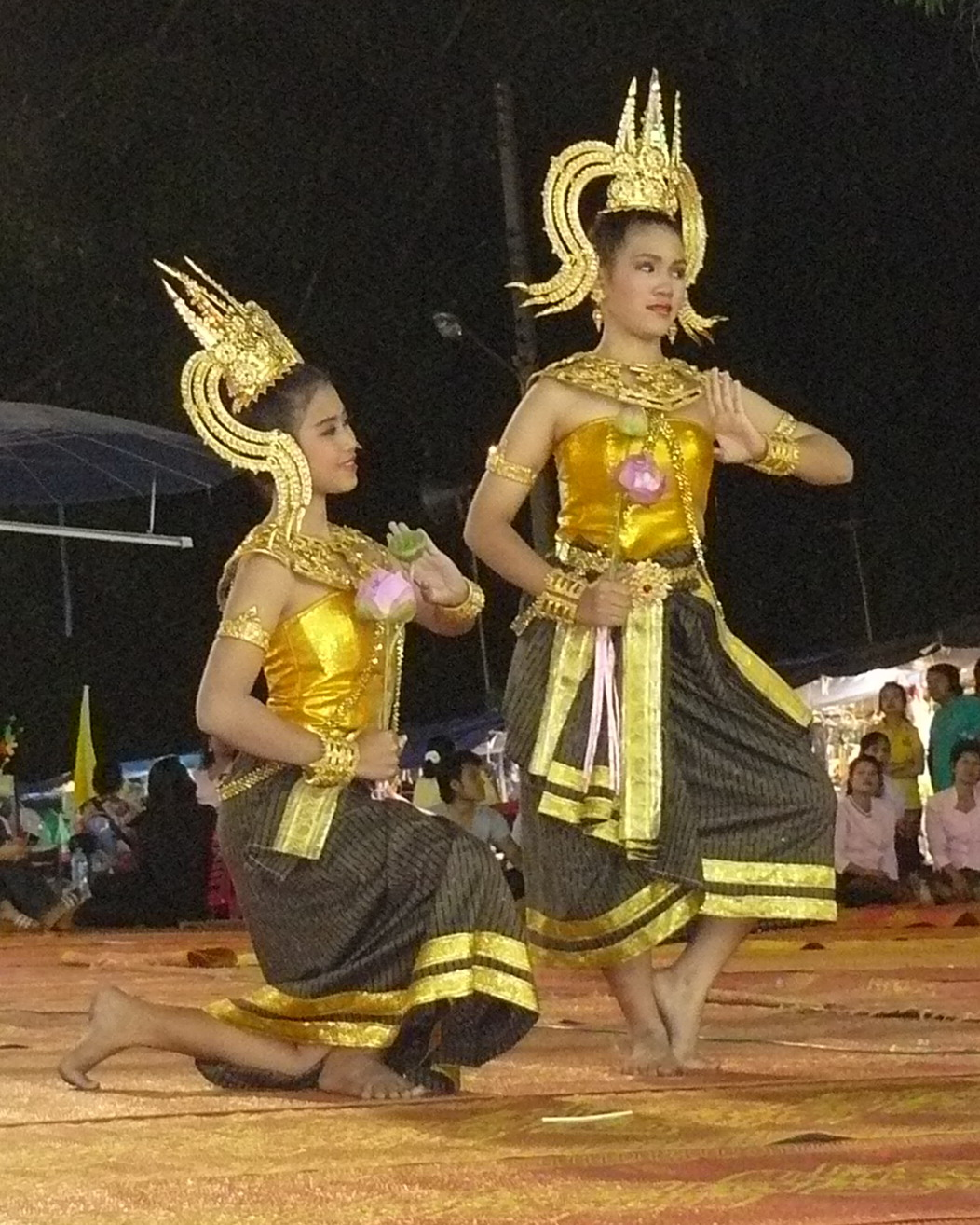 dancing art Thai ancient show in the Wat Phra Thaen Sila At fair in Thung Yang subdistrict, Amphoe Laplae, Uttaradit Province, Thailand.